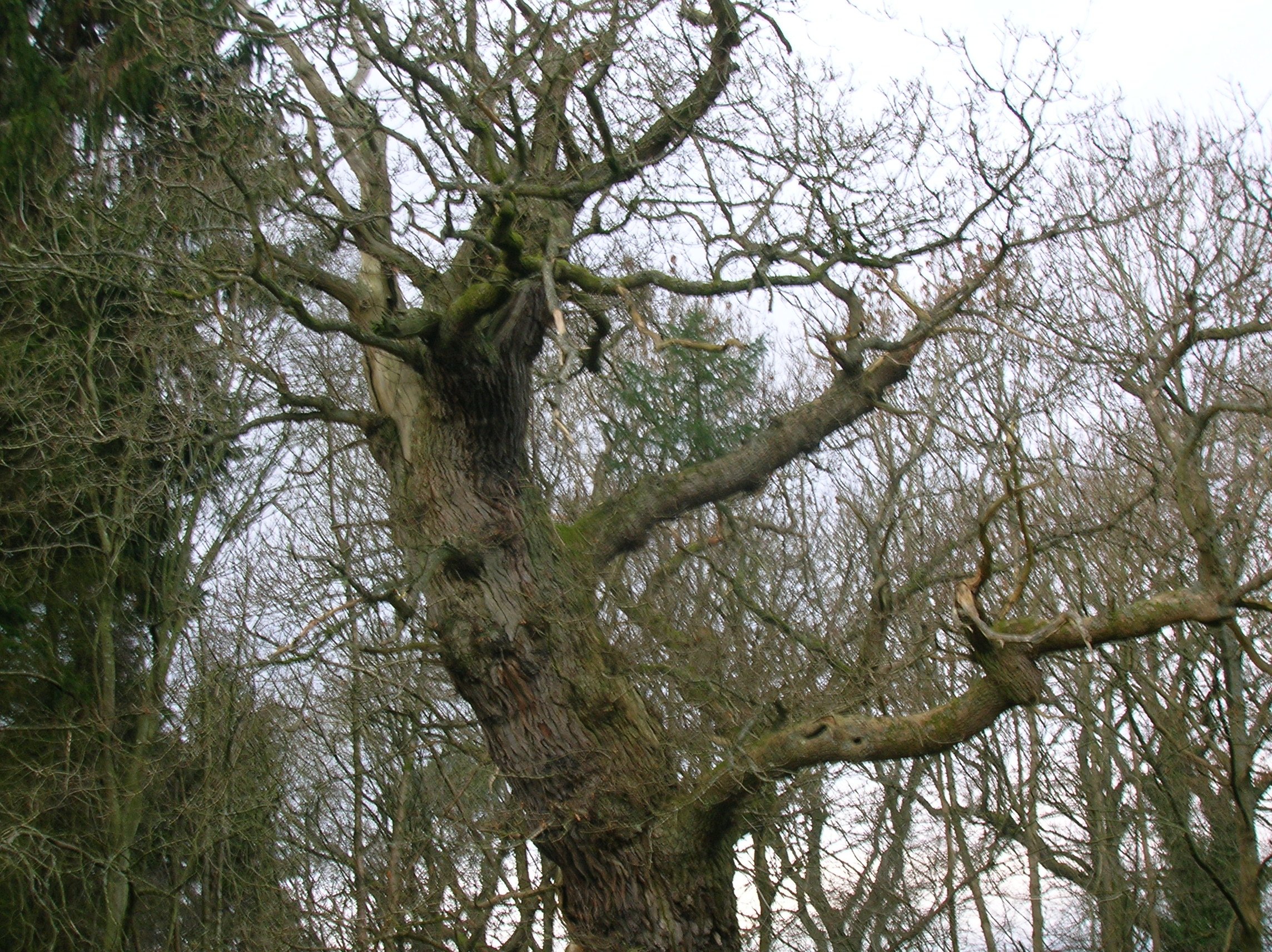 Cadzow ancient oak with epiphytic fir tree. Hamilton, Lanarkshire, Scotland